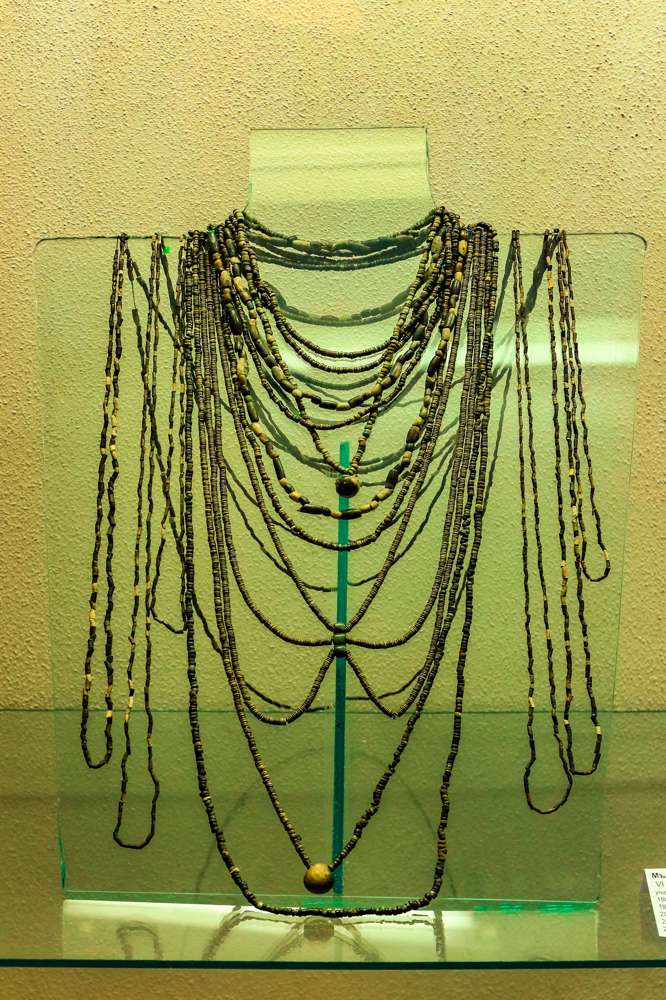 Necklace from Galabnik Tell Pernik Bulgaria